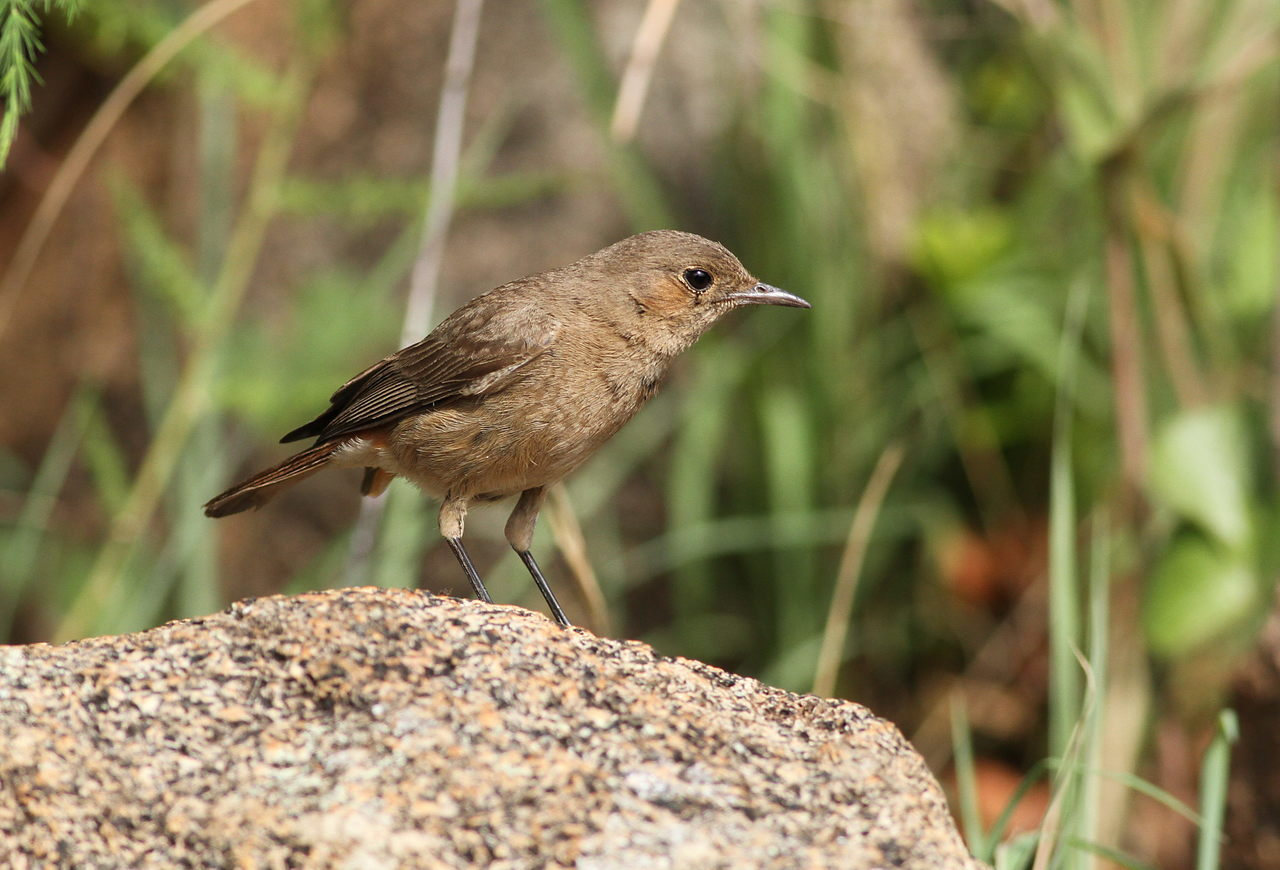 Familiar chat, Cercomela familiaris at Pilanesberg National Park, Northwest Province, South Africa